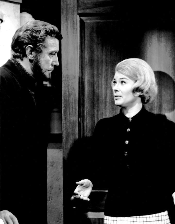 Photo of Edward Mulhare as Captain Daniel Gregg and Hope Lange as Carolyn Muir from the television program The Ghost and Mrs. Muir.